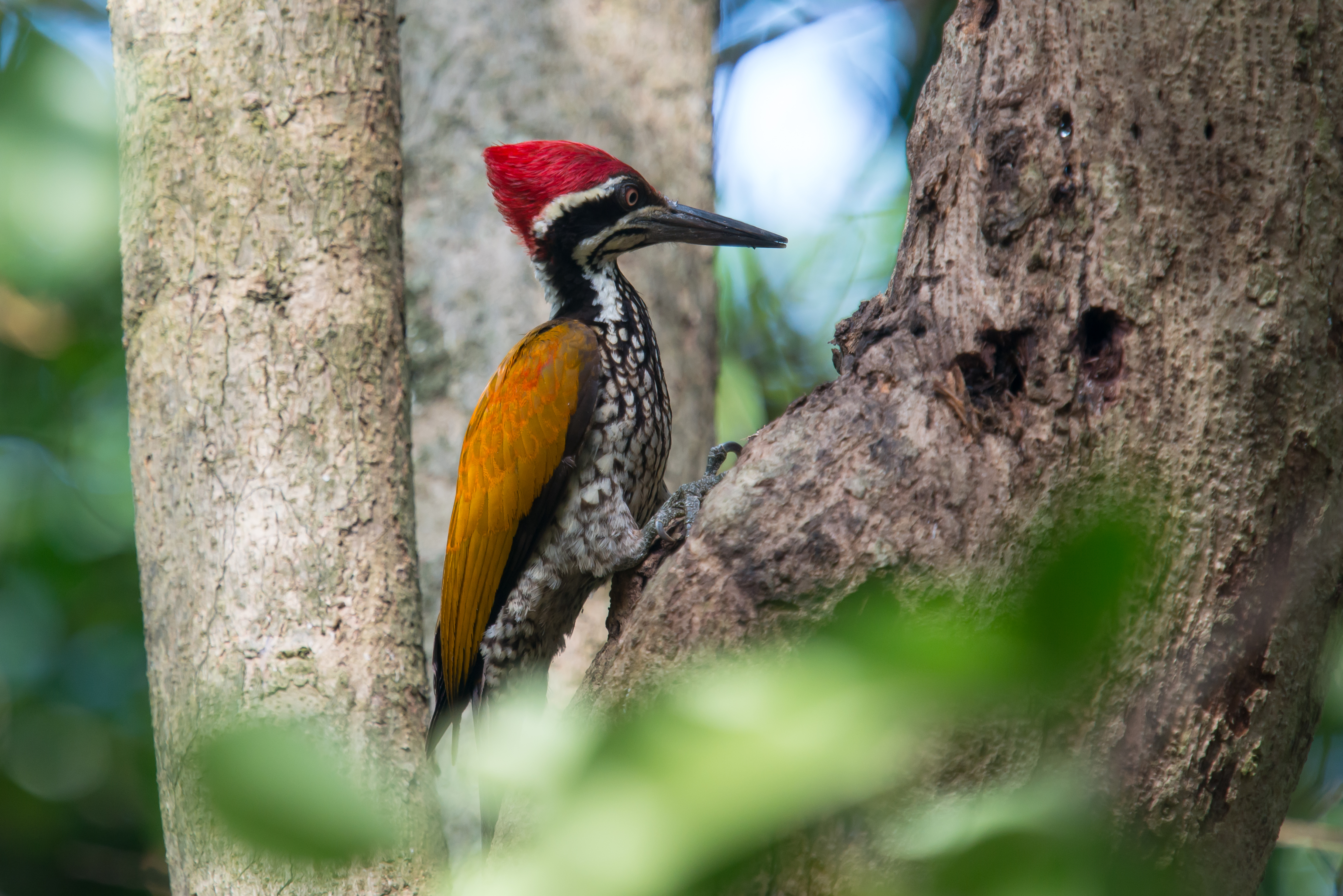 This photo is published under Creative Commons Attribution-Share-Alike Licence, means you are free to use this photo with attribution under same licence. For credits, please use following; Owner: Thai National Parks Link